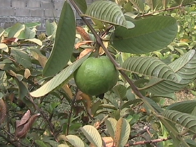 Guava fruit and tree in Tak, Thailand